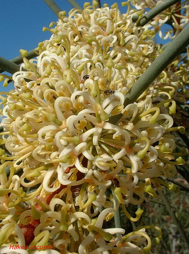 Hakea recurva (1)